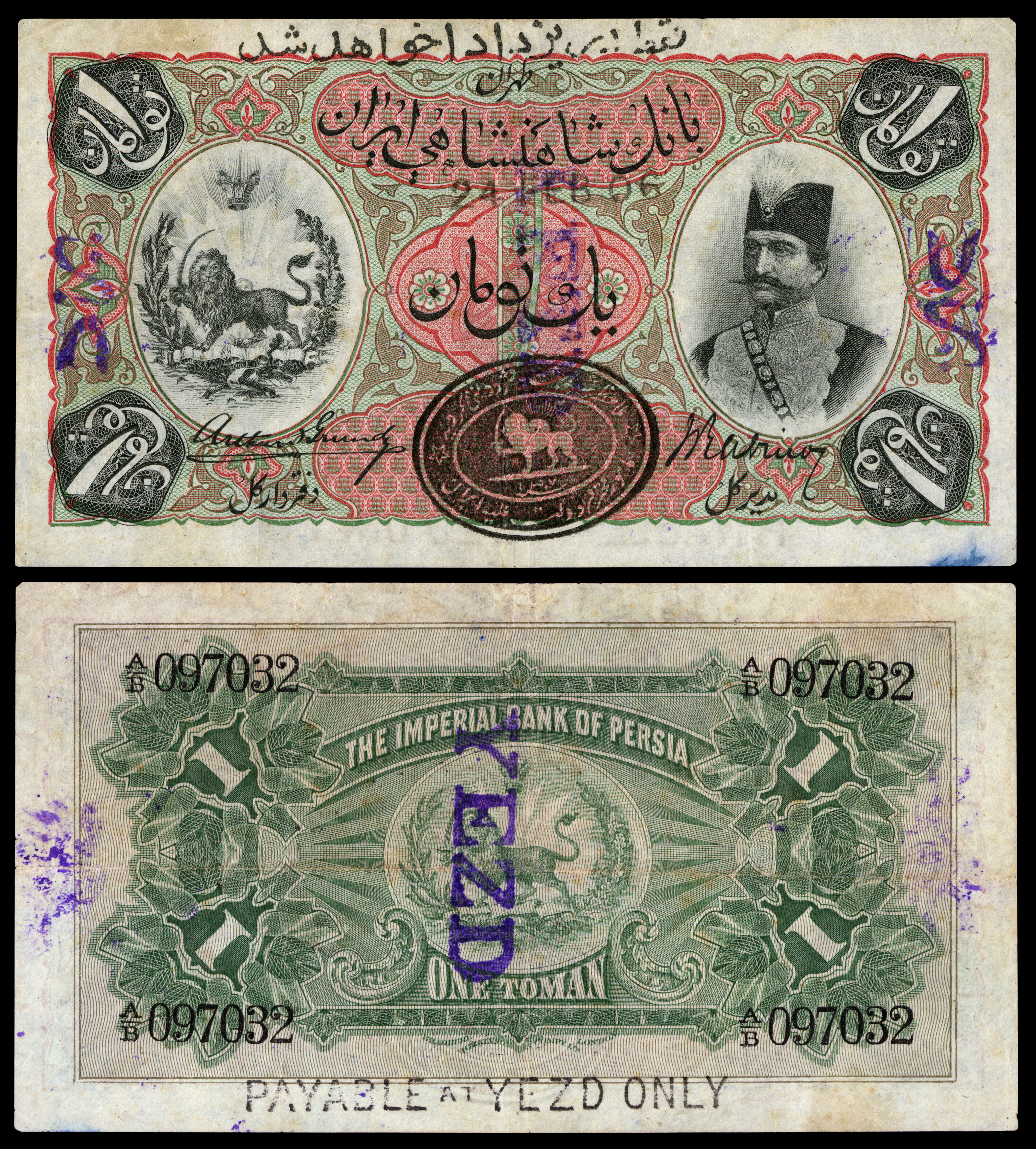 Iran, Imperial Bank of Persia, One Toman (1906) depicting Naser al-Din Shah Qajar.